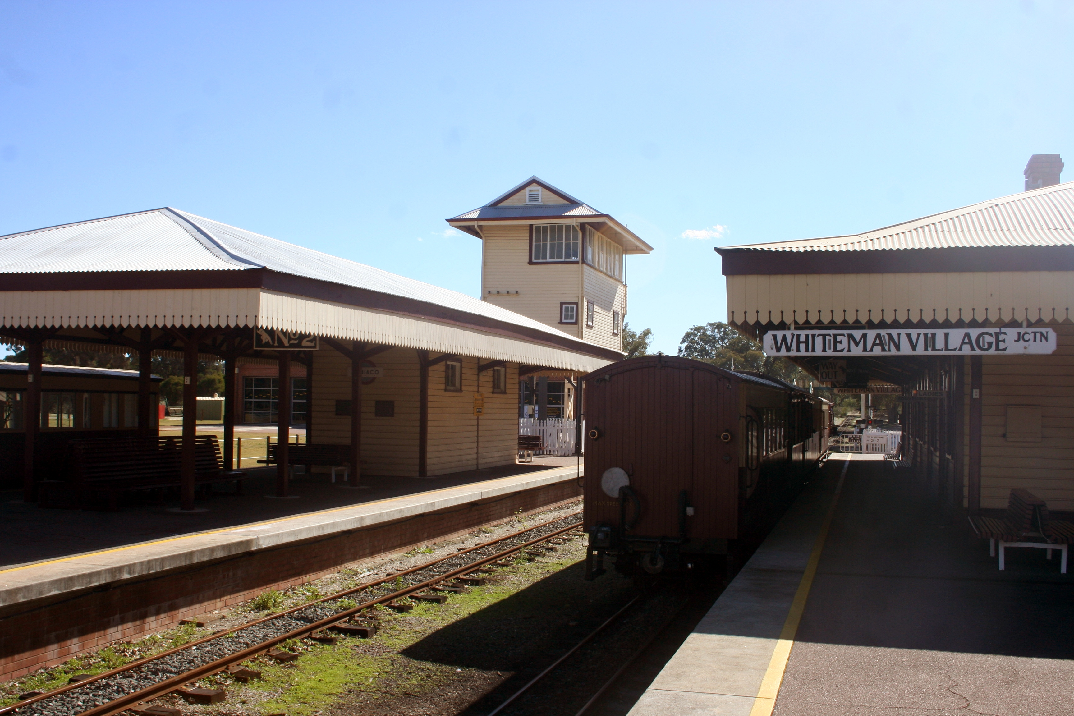 Whiteman Village Junction. Former Claisebrook on the right (Platform 1), Subiaco Island on the left (Platform 2/3), with the former Subiaco Signal Cabin in the background